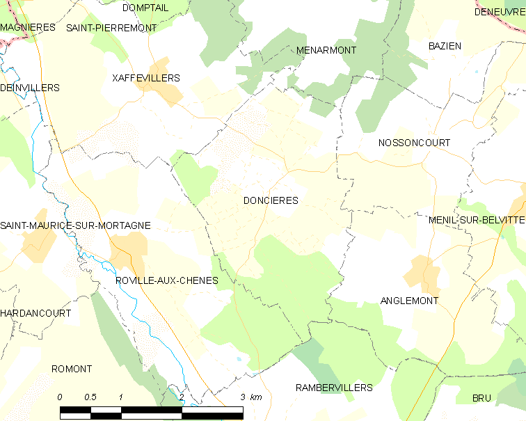 Map of French municipality Doncières